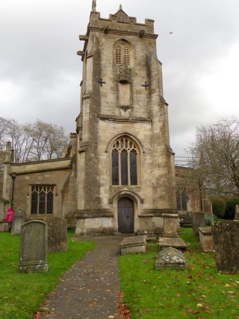 Tower, St Katherine's Church